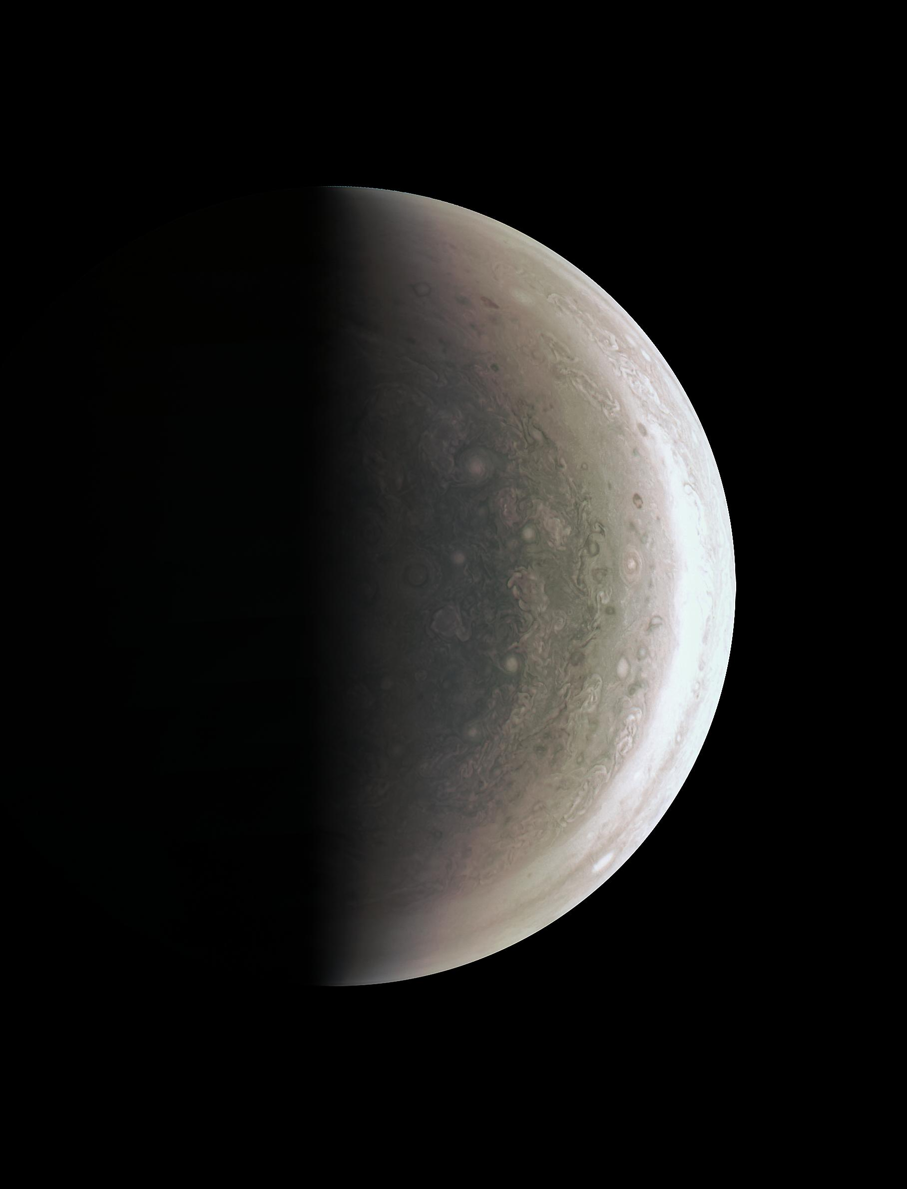 This image from NASA's Juno spacecraft provides a never-before-seen perspective on Jupiter's south pole. The JunoCam instrument acquired the view on August 27, 2016, when the spacecraft was about 58,700 miles (94,500 kilometers) above the polar region. At this point, the spacecraft was about an hour past its closest approach, and fine detail in the south polar region is clearly resolved. Unlike the equatorial region's familiar structure of belts and zones, the poles are mottled by clockwise and counterclockwise rotating storms of various sizes, similar to giant versions of terrestrial hurricanes. The south pole has never been seen from this viewpoint, although the Cassini spacecraft was able to observe most of the polar region at highly oblique angles as it flew past Jupiter on its way to Saturn in 2000 (see PIA07784). NASA's Jet Propulsion Laboratory, Pasadena, California, manages the Juno mission for the principal investigator, Scott Bolton, of Southwest Research Institute in San Antonio. The Juno mission is part of the New Frontiers Program managed at NASA's Marshall Space Flight Center in Huntsville, Alabama. Lockheed Martin Space Systems, Denver, built the spacecraft. JPL is a division of Caltech in Pasadena. More information about Juno is online at and